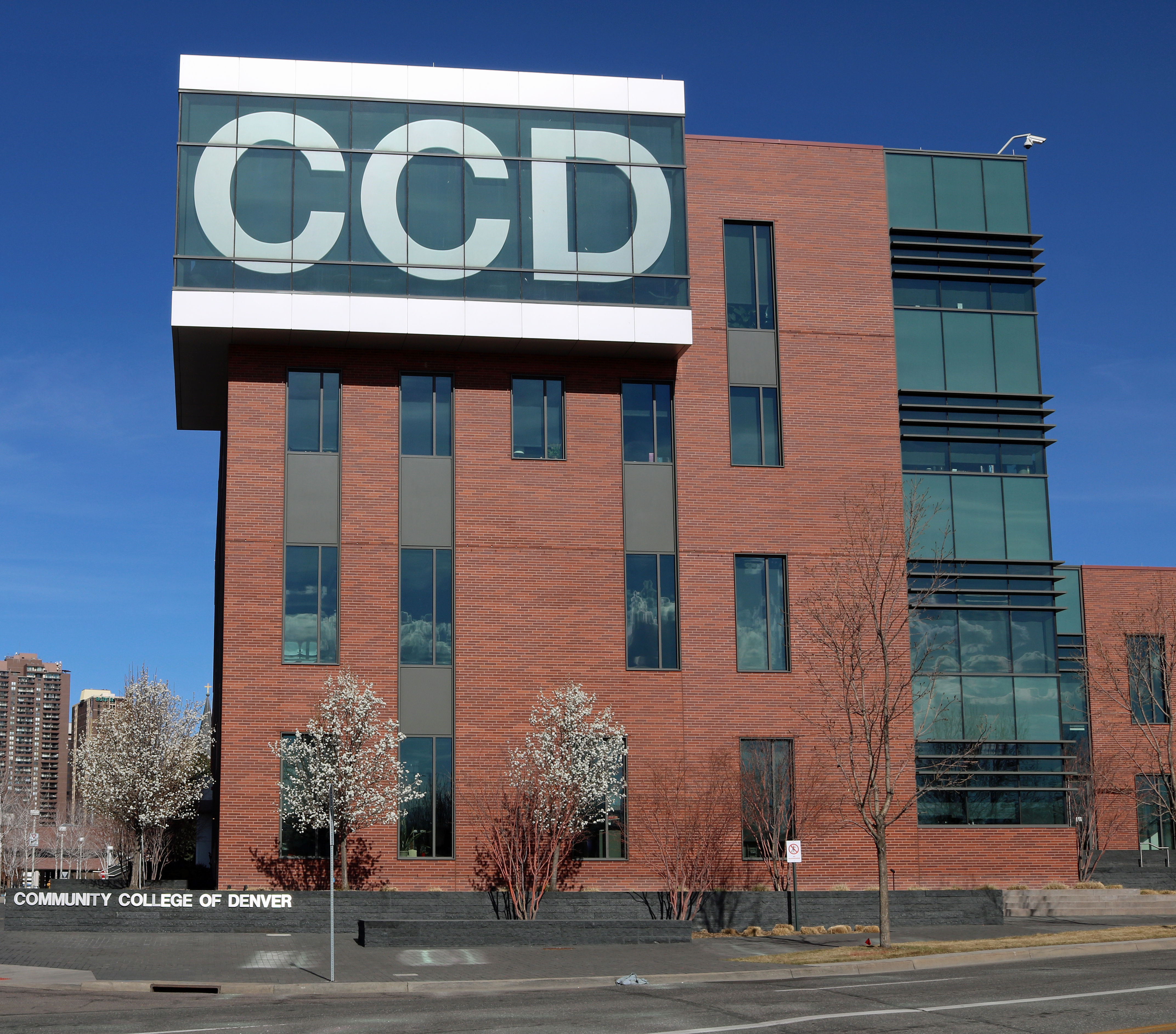 The Community College of Denver's Confluence building at 800 Curtis Street on the Auraria Campus in Denver Colorado.